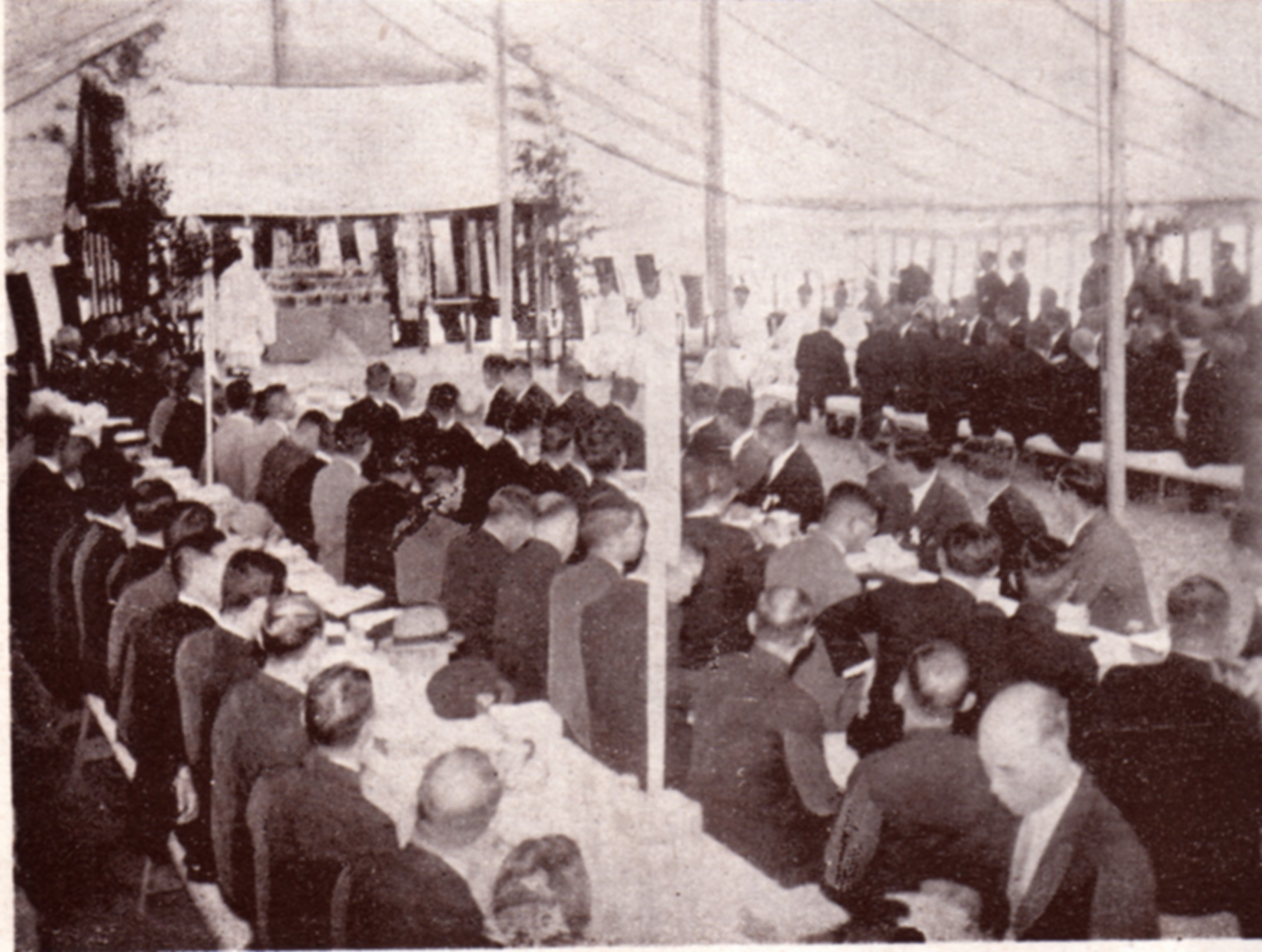 Ground breaking ceremony of Kammon railway tunnel